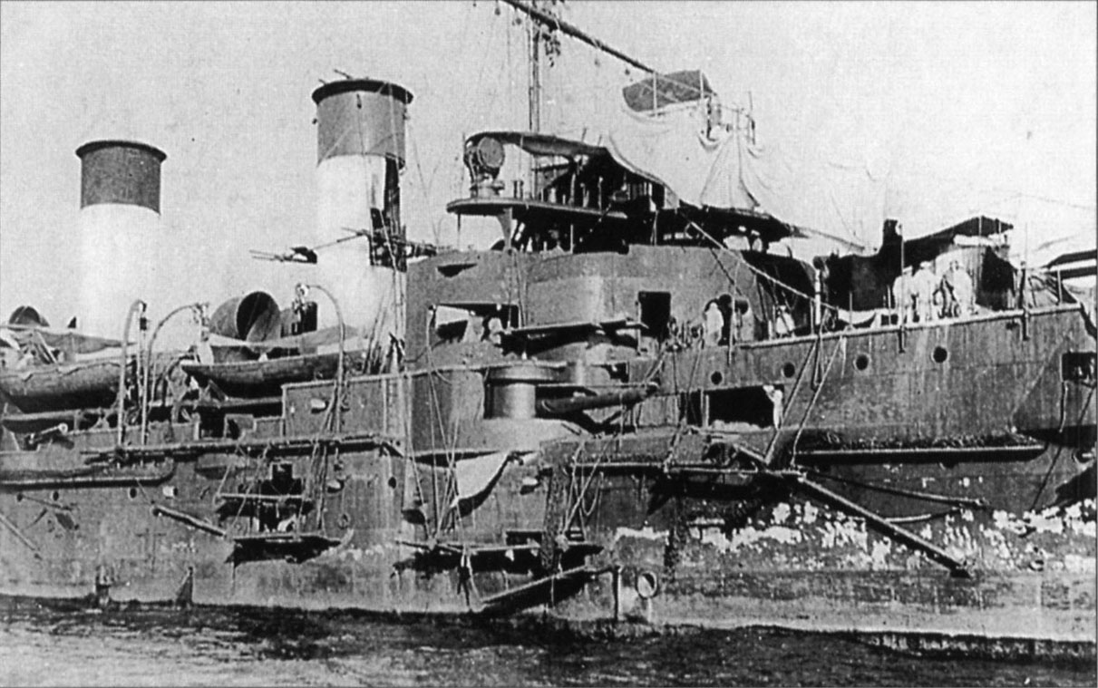 Imperial Russian cruiser Oleg after the battle of Tsushima 1905.